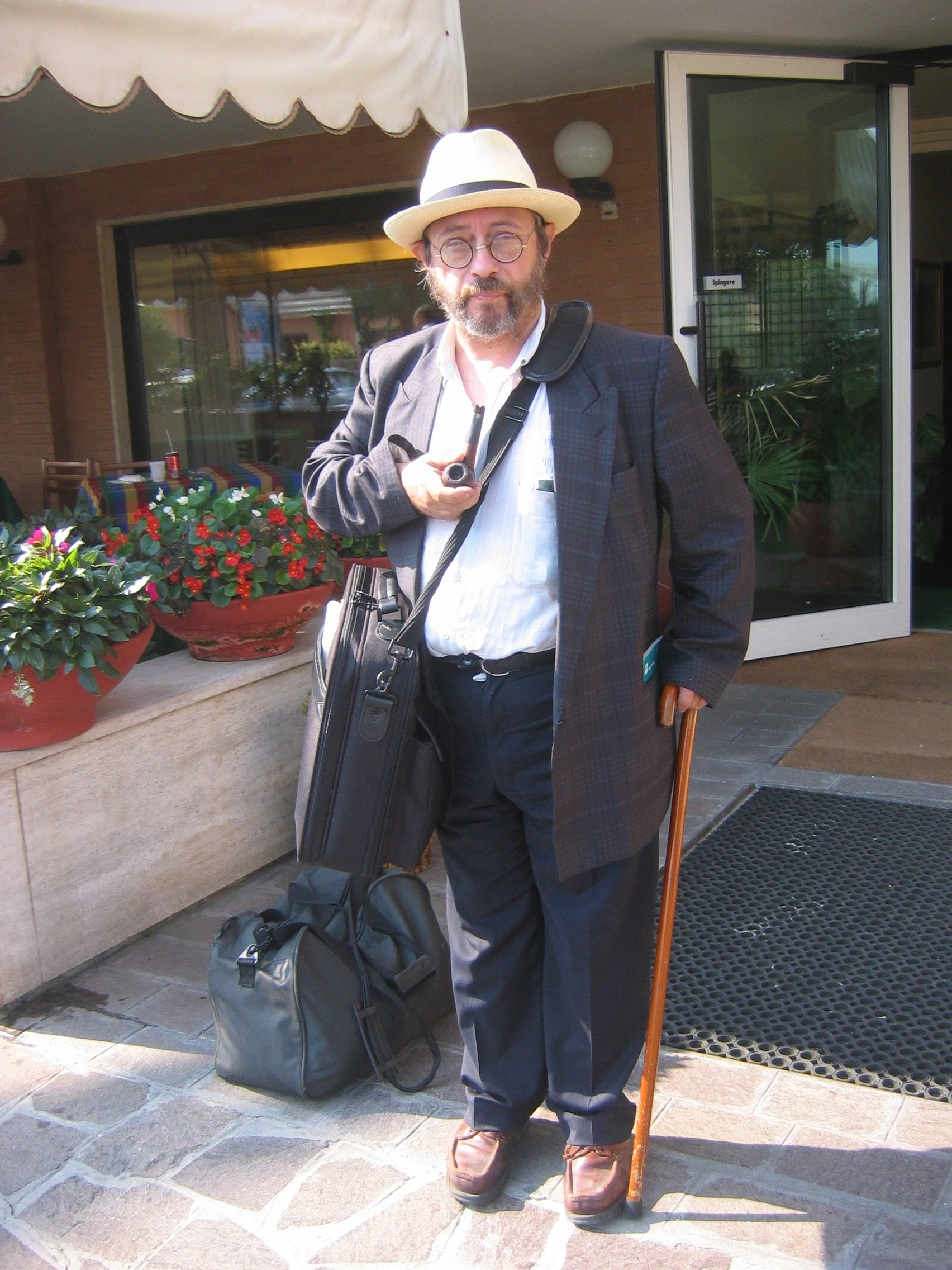 September 4th, 2005. The journalist Riccardo Orioles in Pescara on the occasion of his participation as speaker at "Cyberfreedom" event, organized by PeaceLink and Metro Olografix associations. Photo by Carlo Gubitosa.